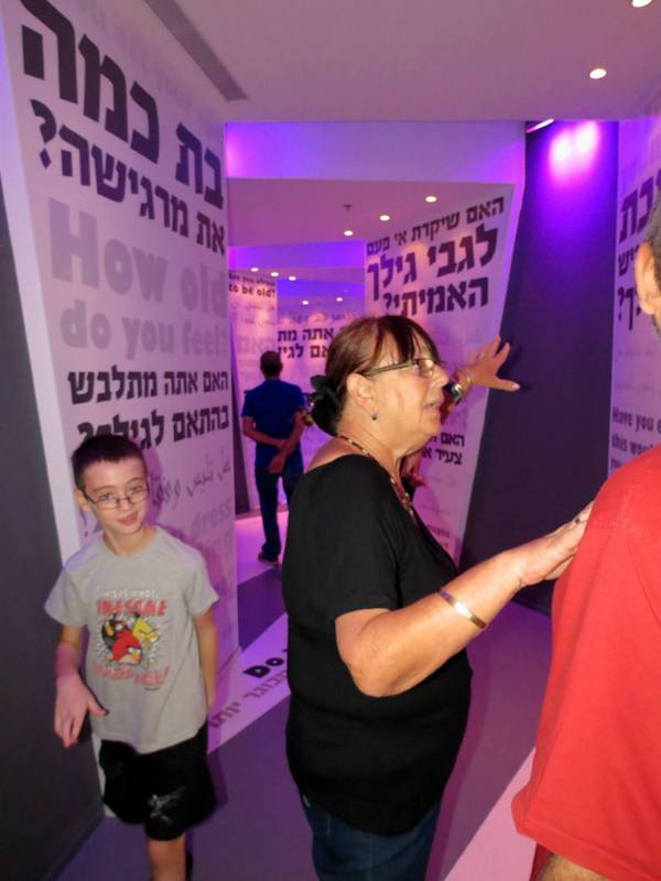 A tunnel of questions